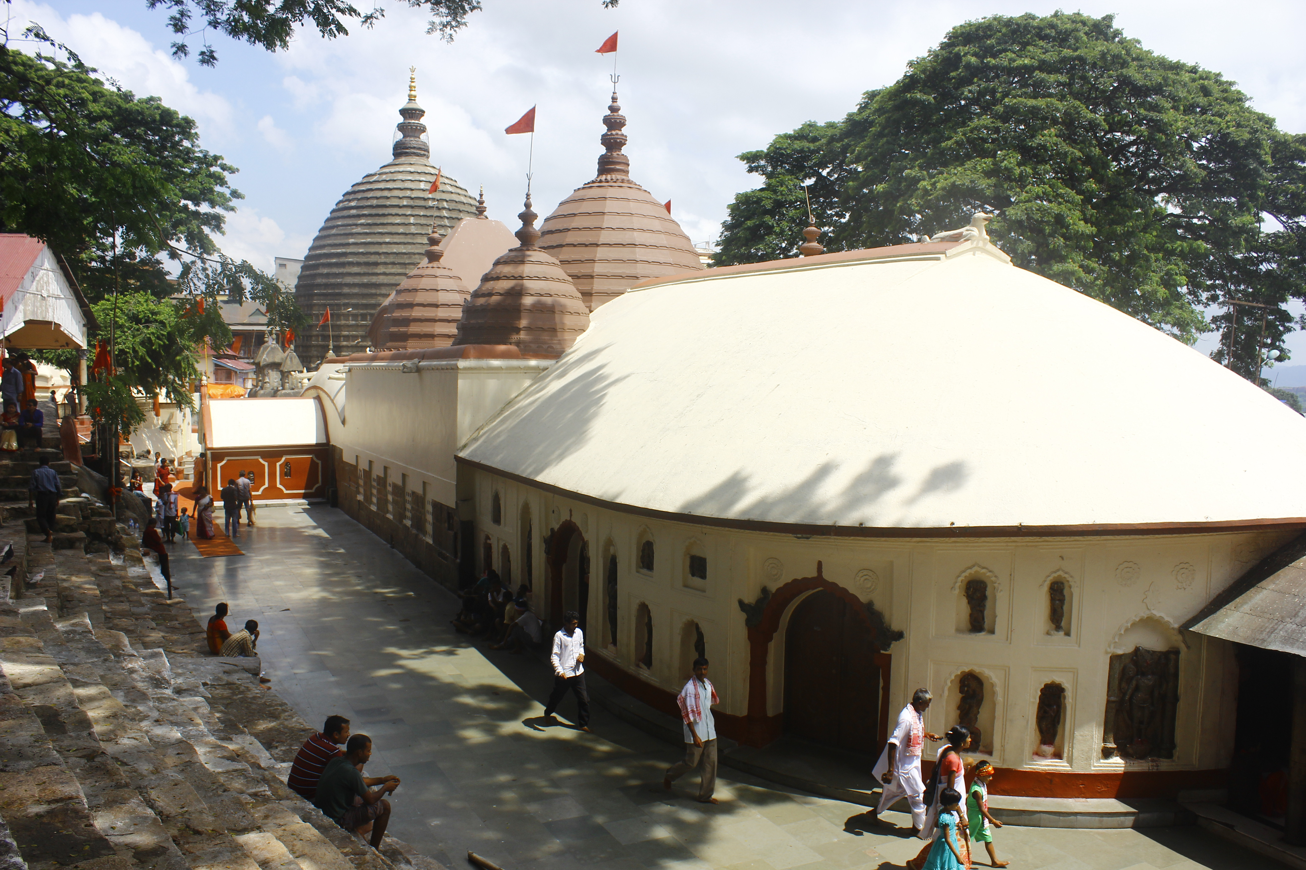 Kamakhya Temple, Guwahati